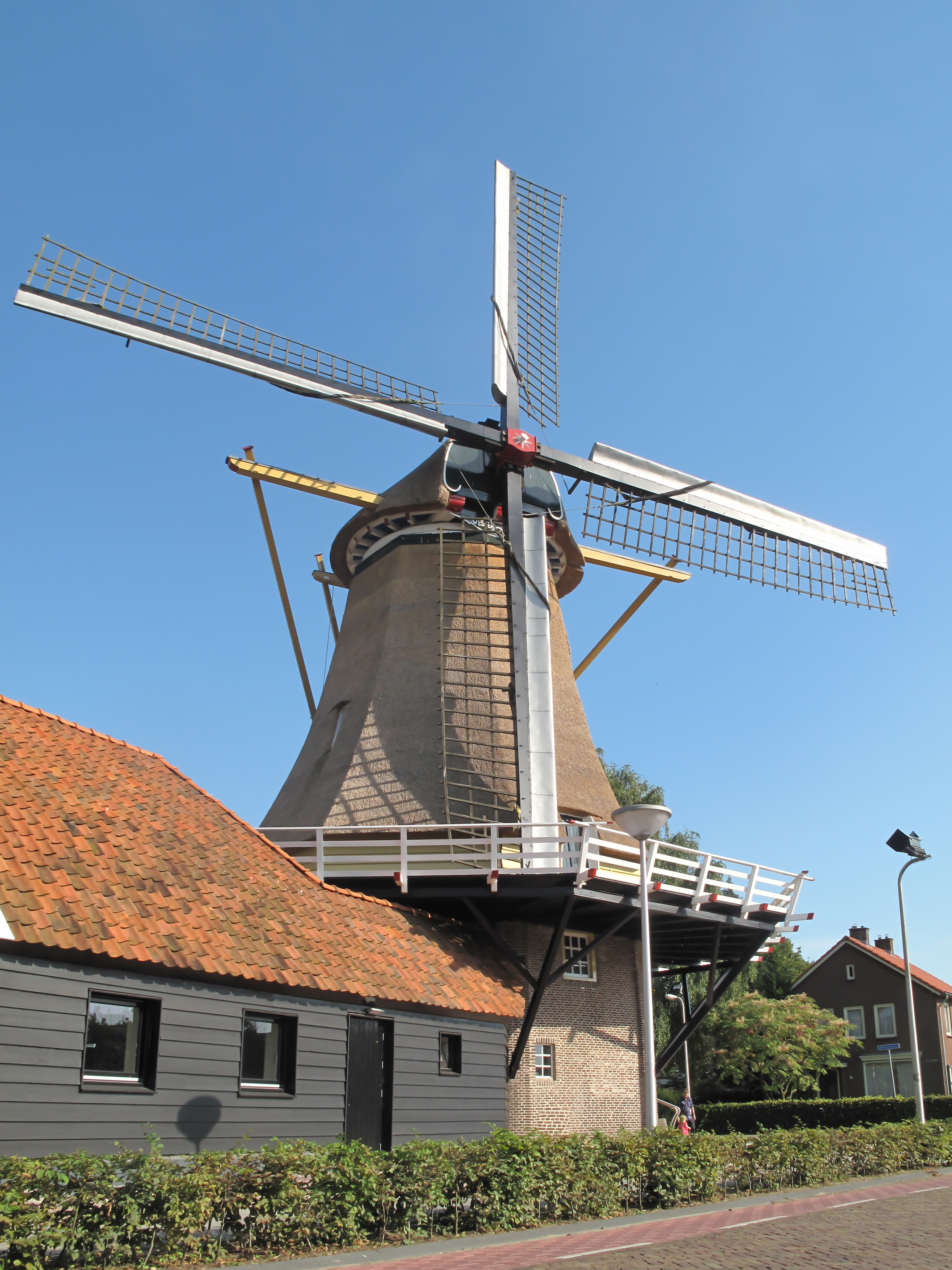 Dalfsen, windmill: de Westermolen